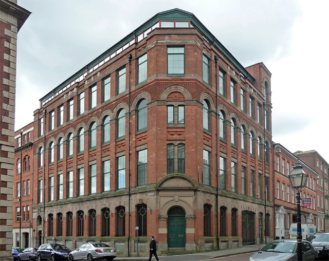 21-23 Castle Gate, Nottingham